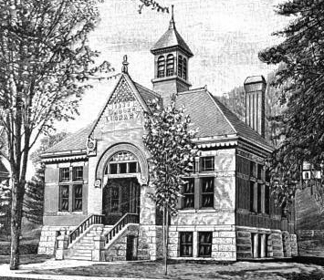 Library in Vermont